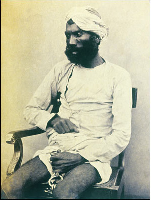 A hand-written caption identifies the man as Gungoo Mehter who was tried at Kanpur for killing many of the Sati Chaura survivors, including many women and children. He was convicted and hanged at Kanpur on 8 September 1859.Photo: John Nicholas Tressider.